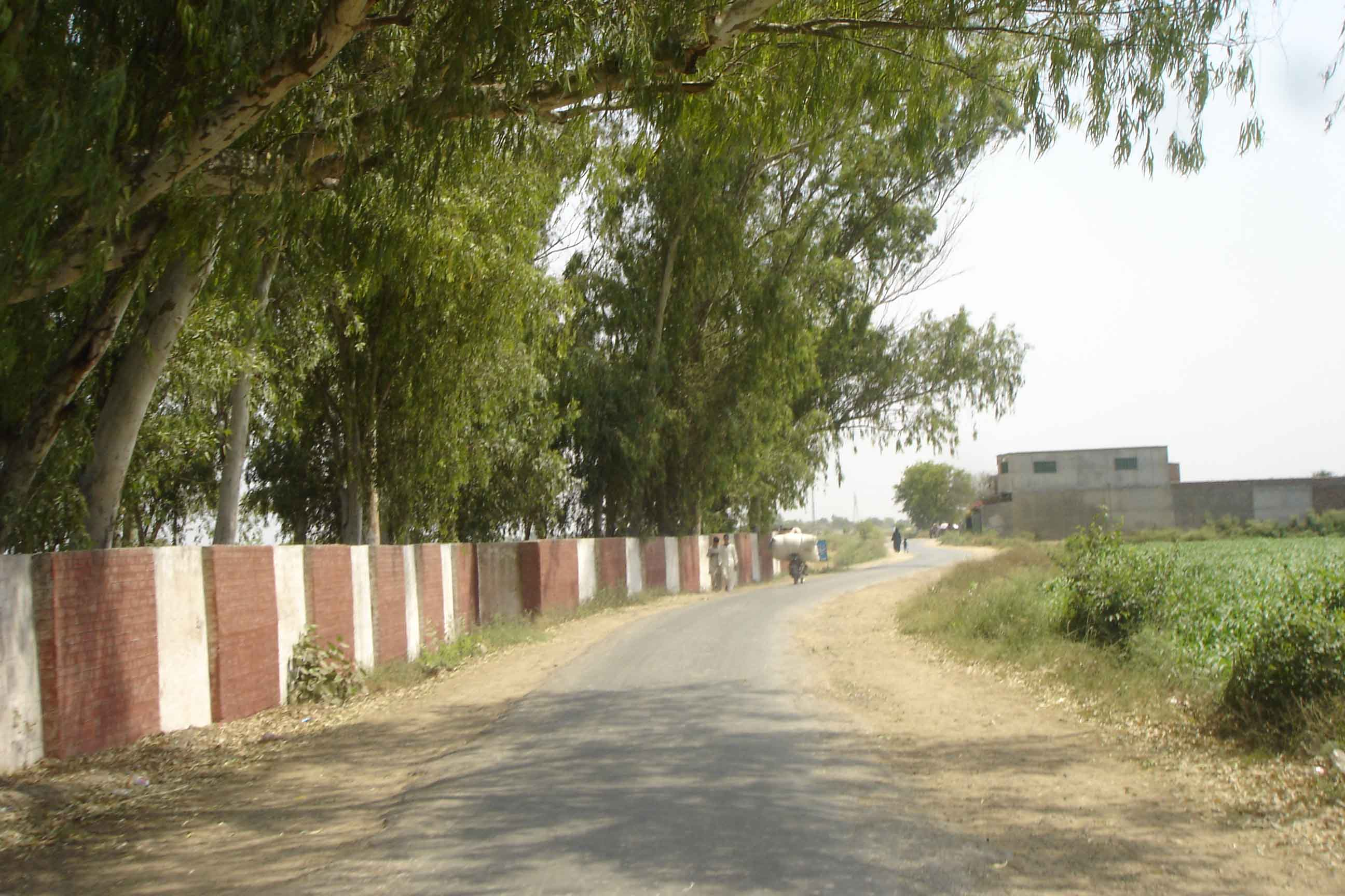 Roads of Alipure Sayadan Sahreef